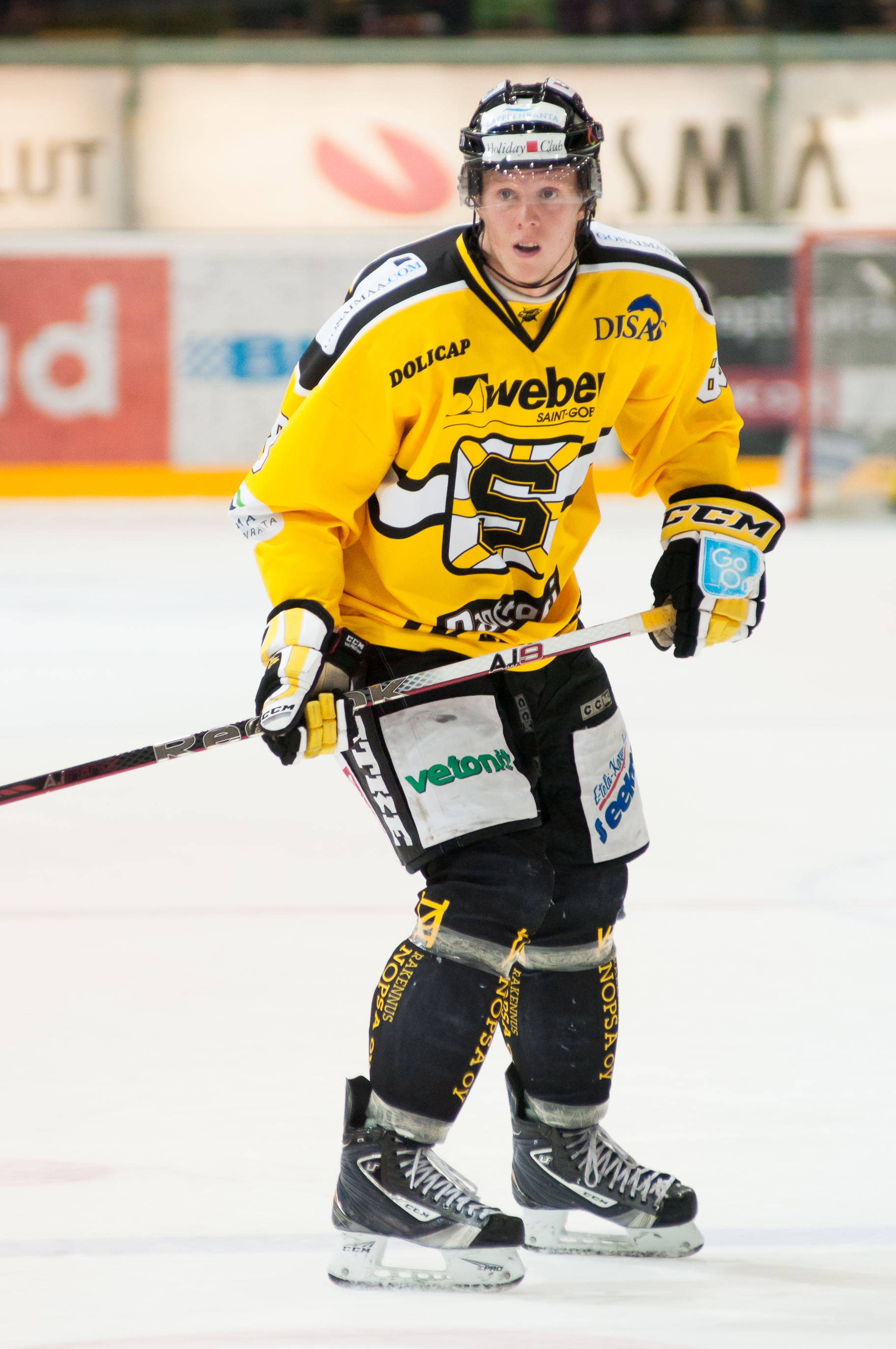 Ice hockey defenseman Per Savilahti-Nagander of SaiPa Lappeenranta playing against Oulun Kärpät in Lappeenranta, Finland.